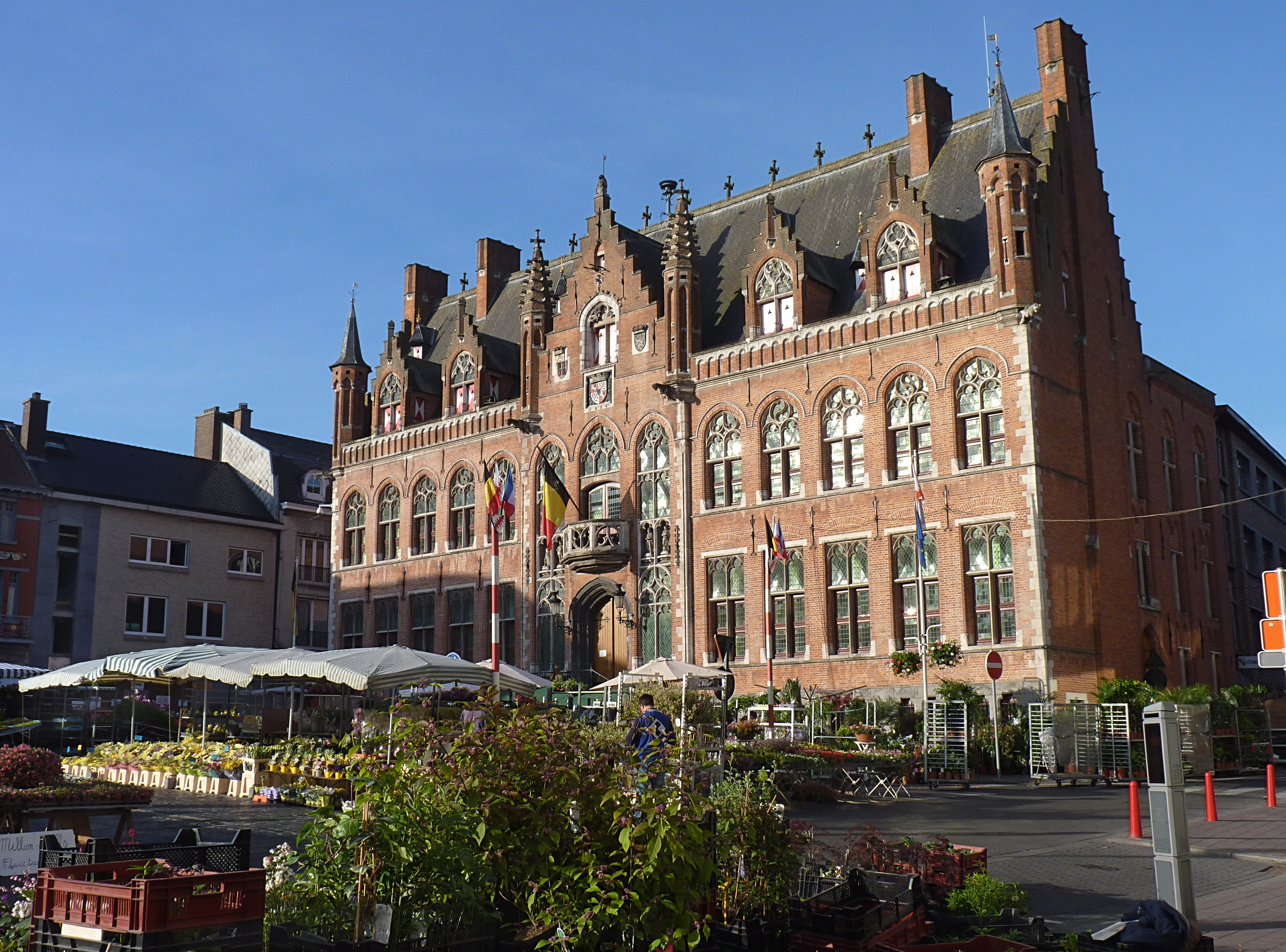 Flower market on the Ascension Day on the town square of Mouscron, Belgium. In the background, the town hall.